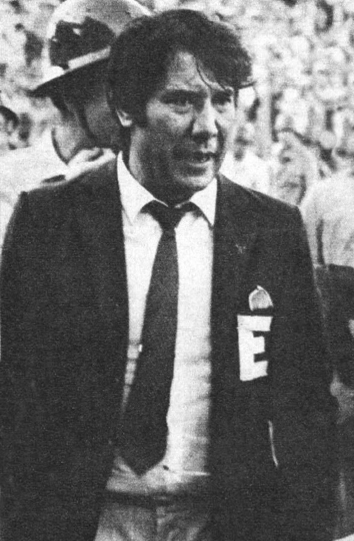 Enrique Omar Sívori as manager of Rosario Central.